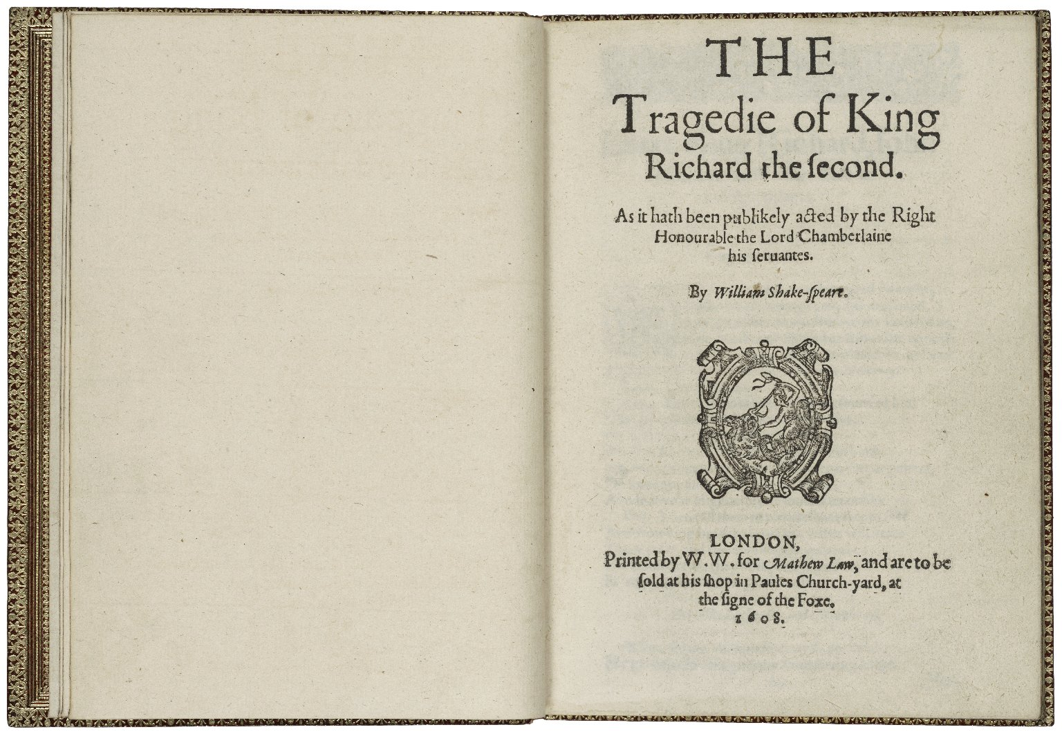 The title page from the fourth quarto edition of The tragedie of King Richard the second, printed in 1608.